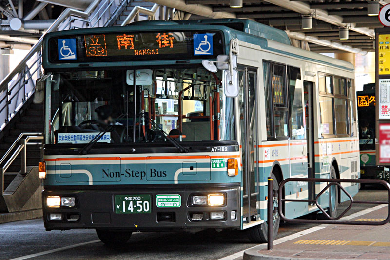 Seibu Bus's route bus (Car No.A7-182 / Nissan Diesel PKG-RA274KAN / NSK 96MC body) at Tachikawa Station North Exit, Tachikawa, Tokyo, Japan